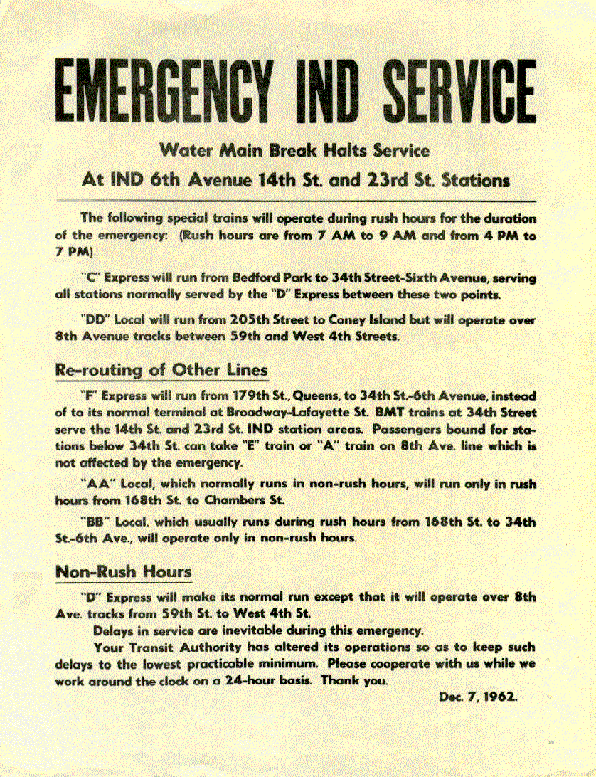 This is a poster describing the changes in IND Division service due to a water main break.